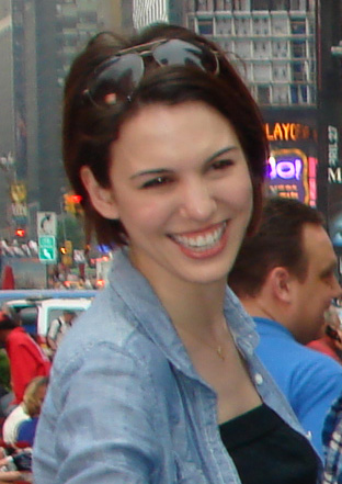 Christy Carlson Romano